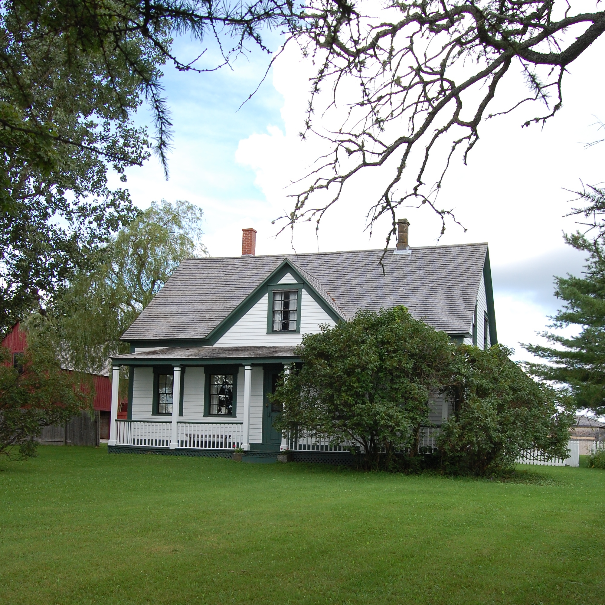 Home of Andrew Bonar Law in Rexton New Brunswick, Canada. It is now a national historic site.